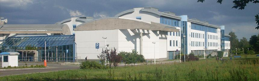 Faculty of Law and Administration by Gdańsk University, block of auditoriums.